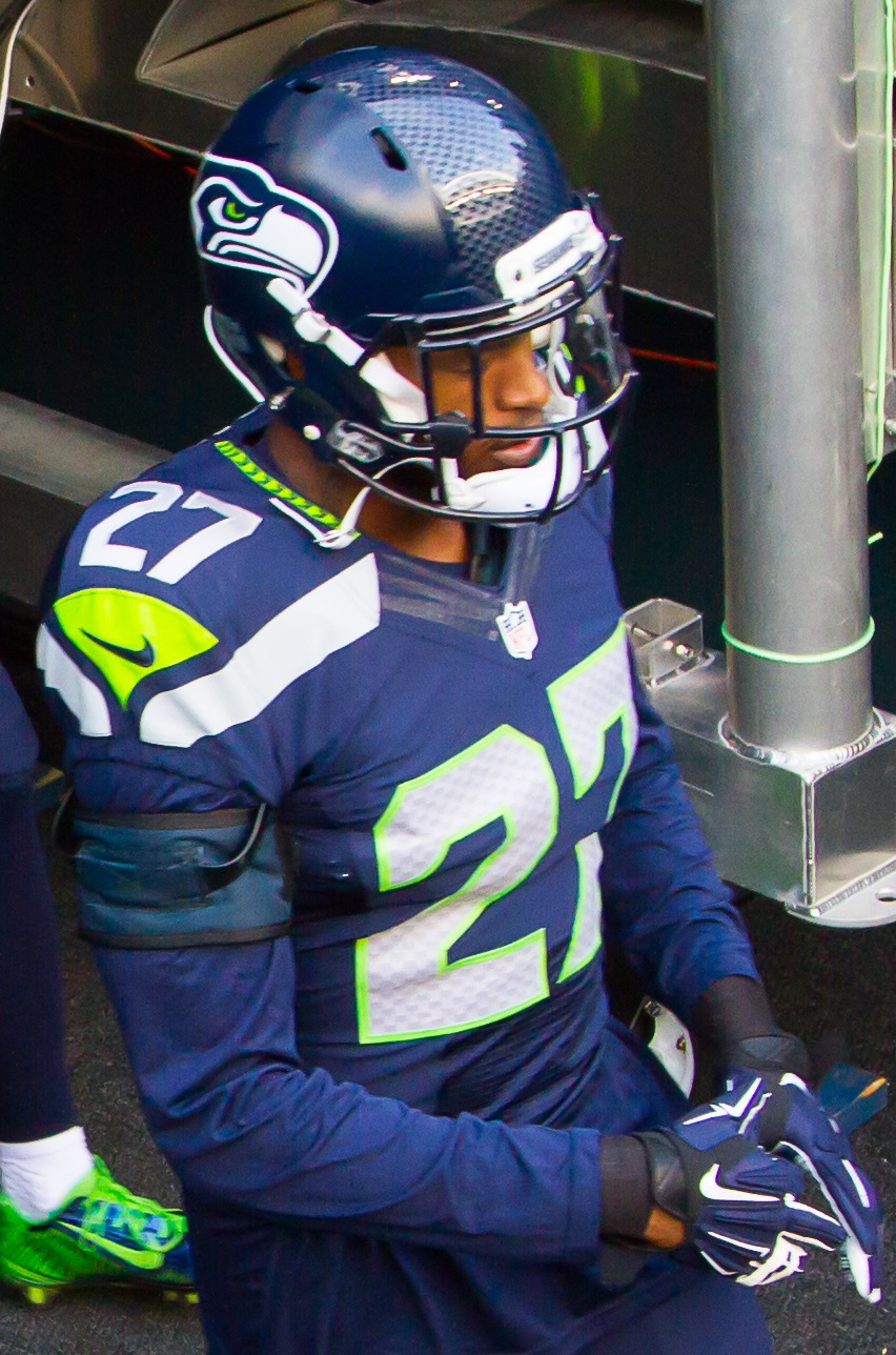 2015 preseason